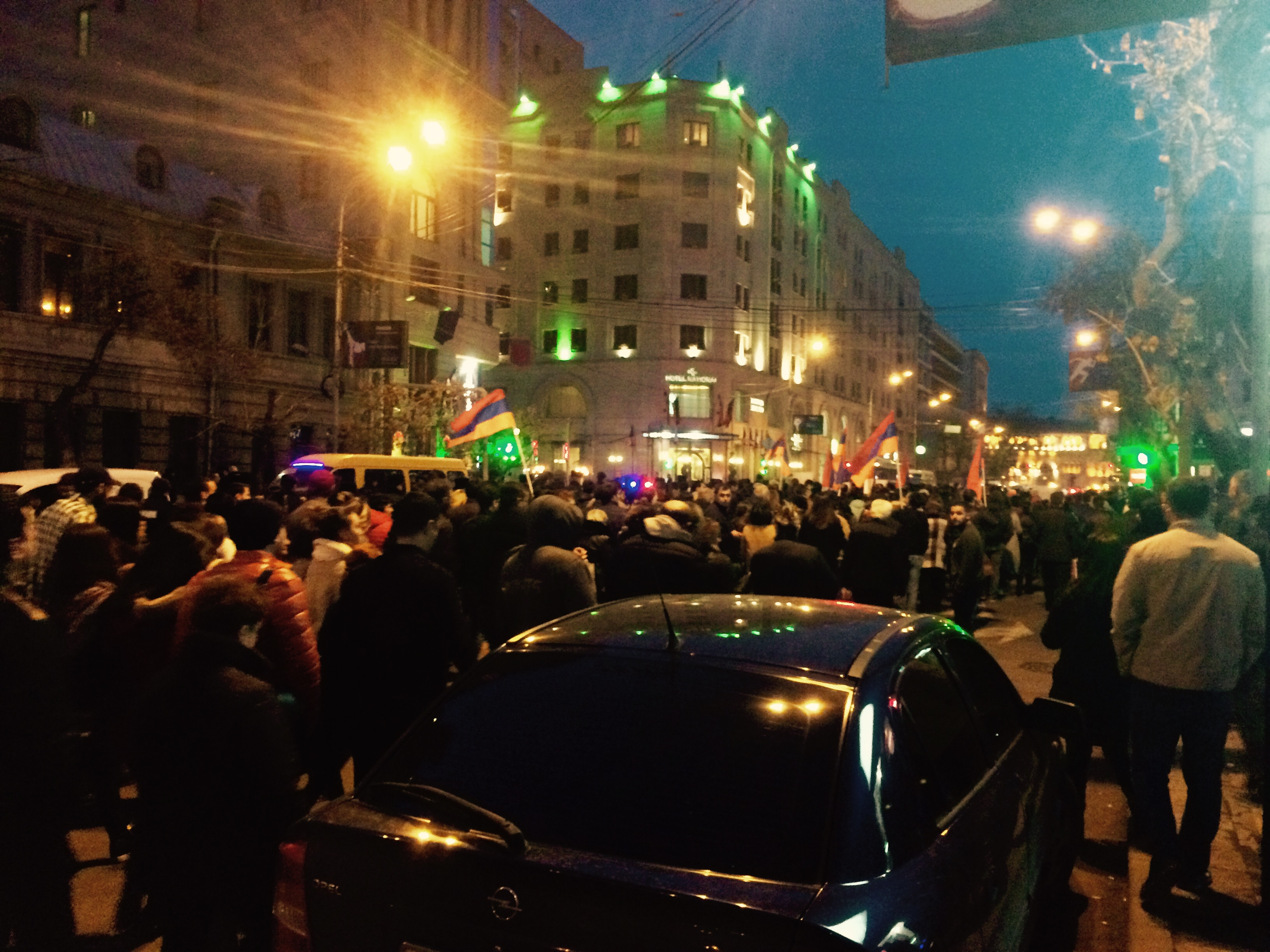 Rally in memory of ‘Food Bringer’ Artur Sargsyan․